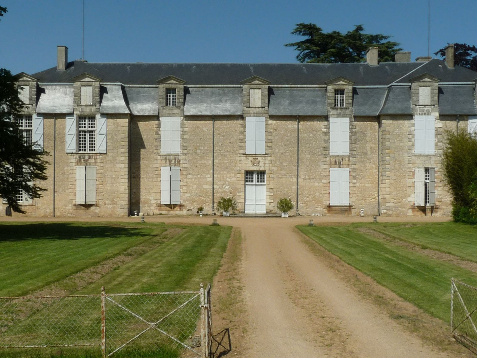 castle of Cumond, St-Antoine-Cumond , Dordogne, SW France